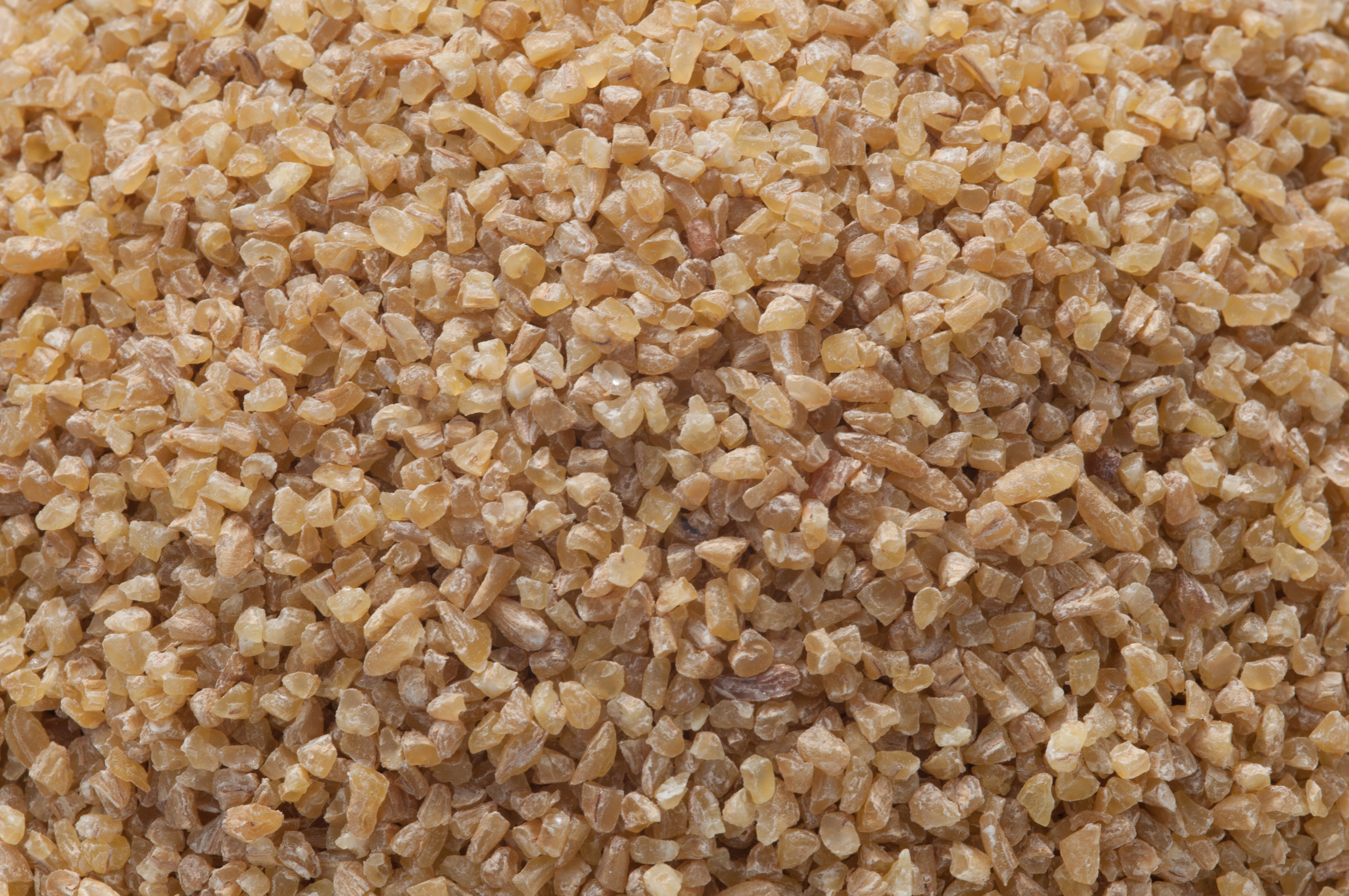 Bulgur